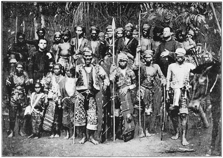 The Datto Manib, principal Bagani of the Bagobos, with some wives and followers and two missionaries (c. 1900, Philippines)